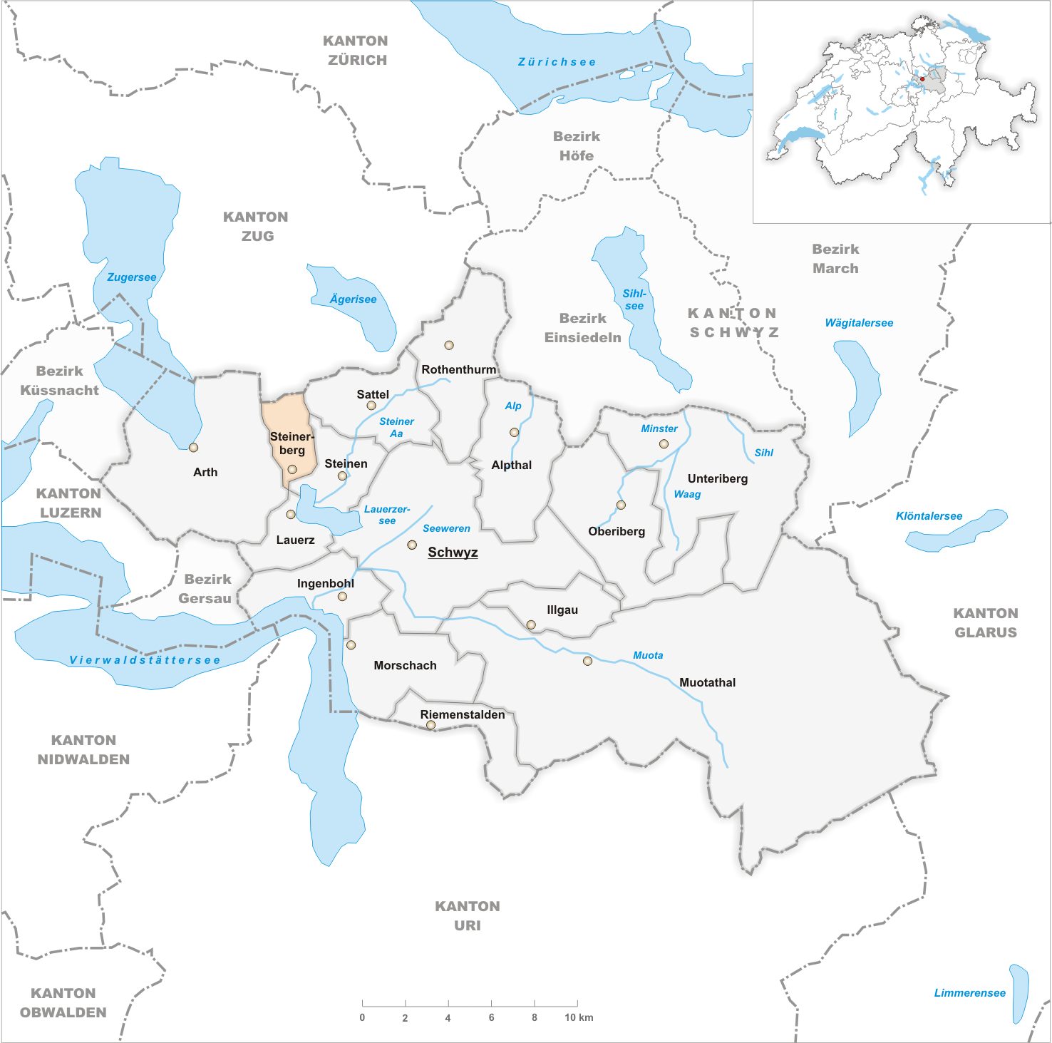 Municipality Steinerberg